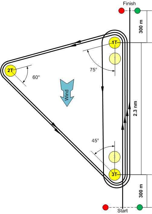 Tornado Course Map of the 1984 Olympic Games